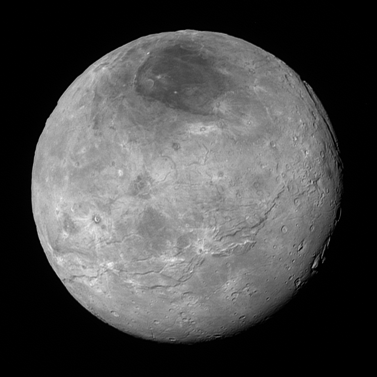 This image of Pluto's largest moon Charon, taken by NASA's New Horizons spacecraft 10 hours before its closest approach to Pluto on July 14, 2015 from a distance of 290,000 miles (470,000 kilometers), is a recently downlinked, much higher quality version of a Charon image released on July 15. Charon, which is 750 miles (1,200 kilometers) in diameter, displays a surprisingly complex geological history, including tectonic fracturing; relatively smooth, fractured plains in the lower right; several enigmatic mountains surrounded by sunken terrain features on the right side; and heavily cratered regions in the center and upper left portion of the disk. There are also complex reflectivity patterns on Charon’s surface, including bright and dark crater rays, and the conspicuous dark north polar region at the top of the image. The smallest visible features are 2.9 miles 4.6 kilometers) in size